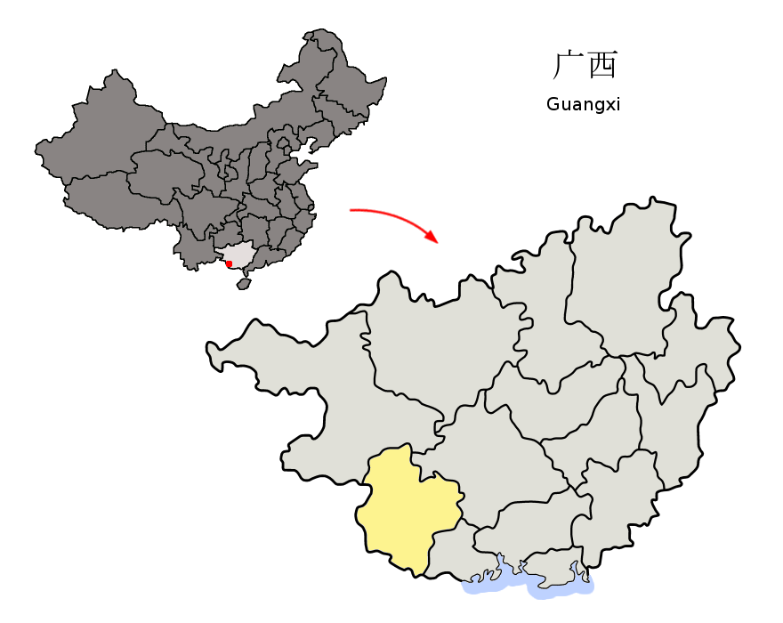 Location of Chongzuo Prefecture (yellow) within Guangxi Autonomous Region of China Map drawn in november 2007 using various sources, mainly : Guangxi Autonomous Region administrative regions GIS data: 1:1M, County level, 1990 Guangxi Counties map from